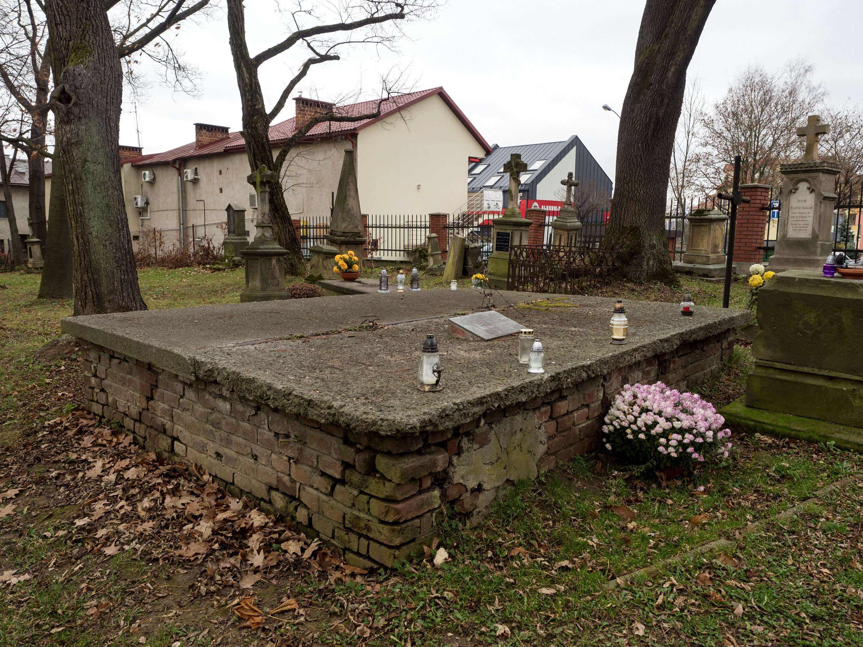 Grób Stanisława Janika - organmistrza, wiceburmistrza Krosna